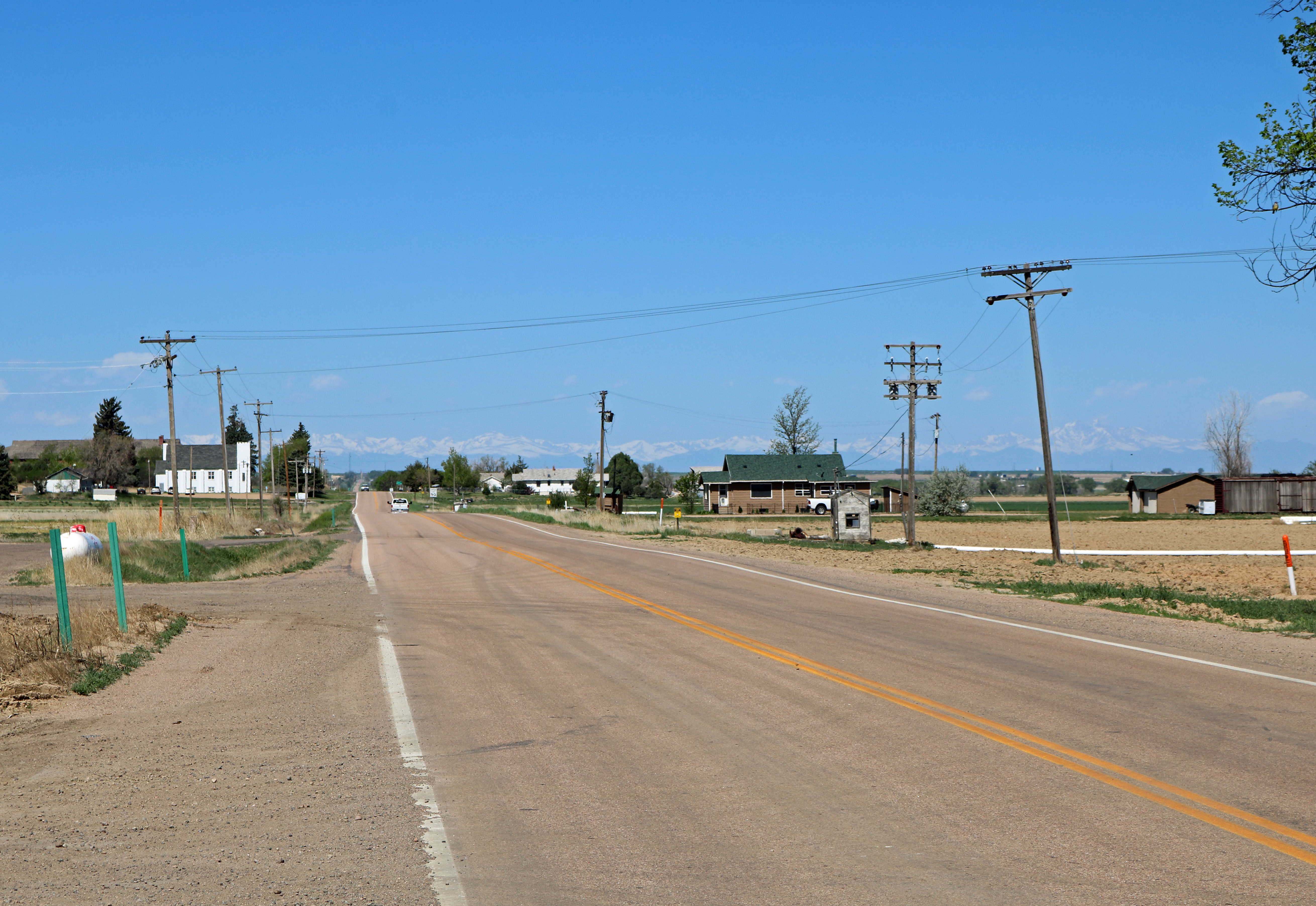 Prospect Valley, Colorado. The view is to the west along Colorado State Highway 52.